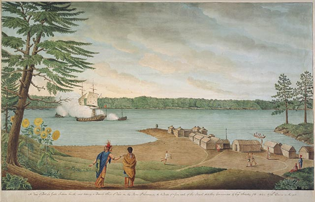 British Gunboats capture French corvette l'Outaouaise during the Battle of the Thousand Islands. The captured ship was renamed HMS Williamson.